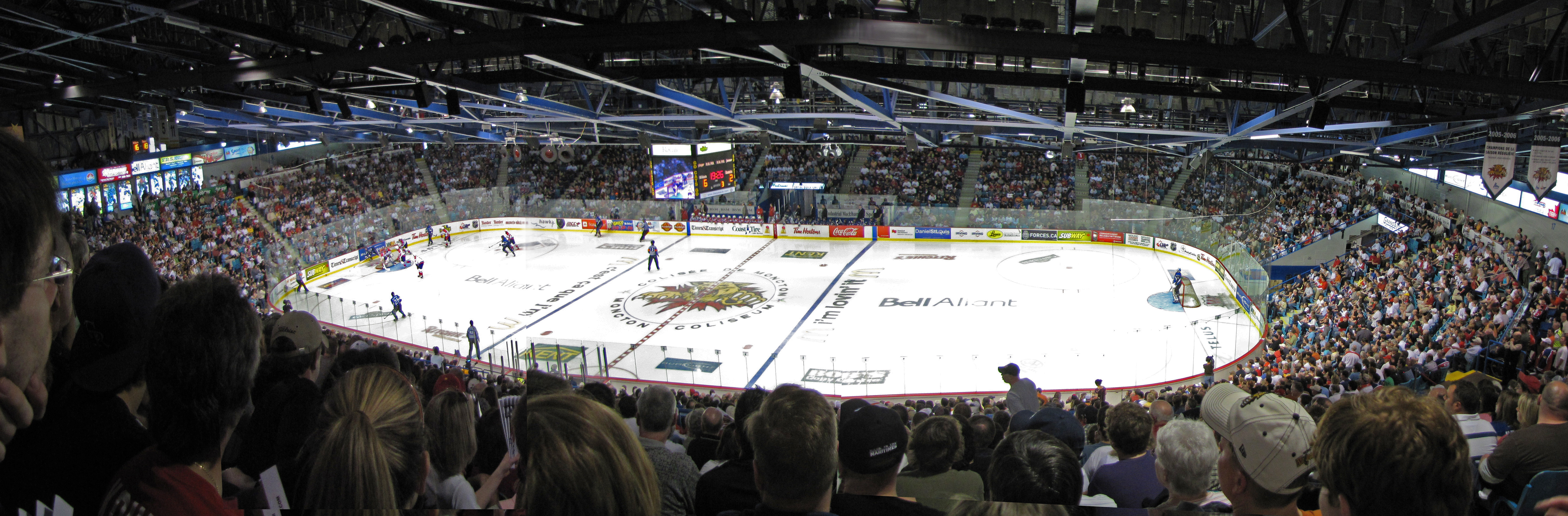 Interior shot of the Moncton Coliseum during a Moncton Wildcats President's Cup final game against the Saint John Sea Dogs.